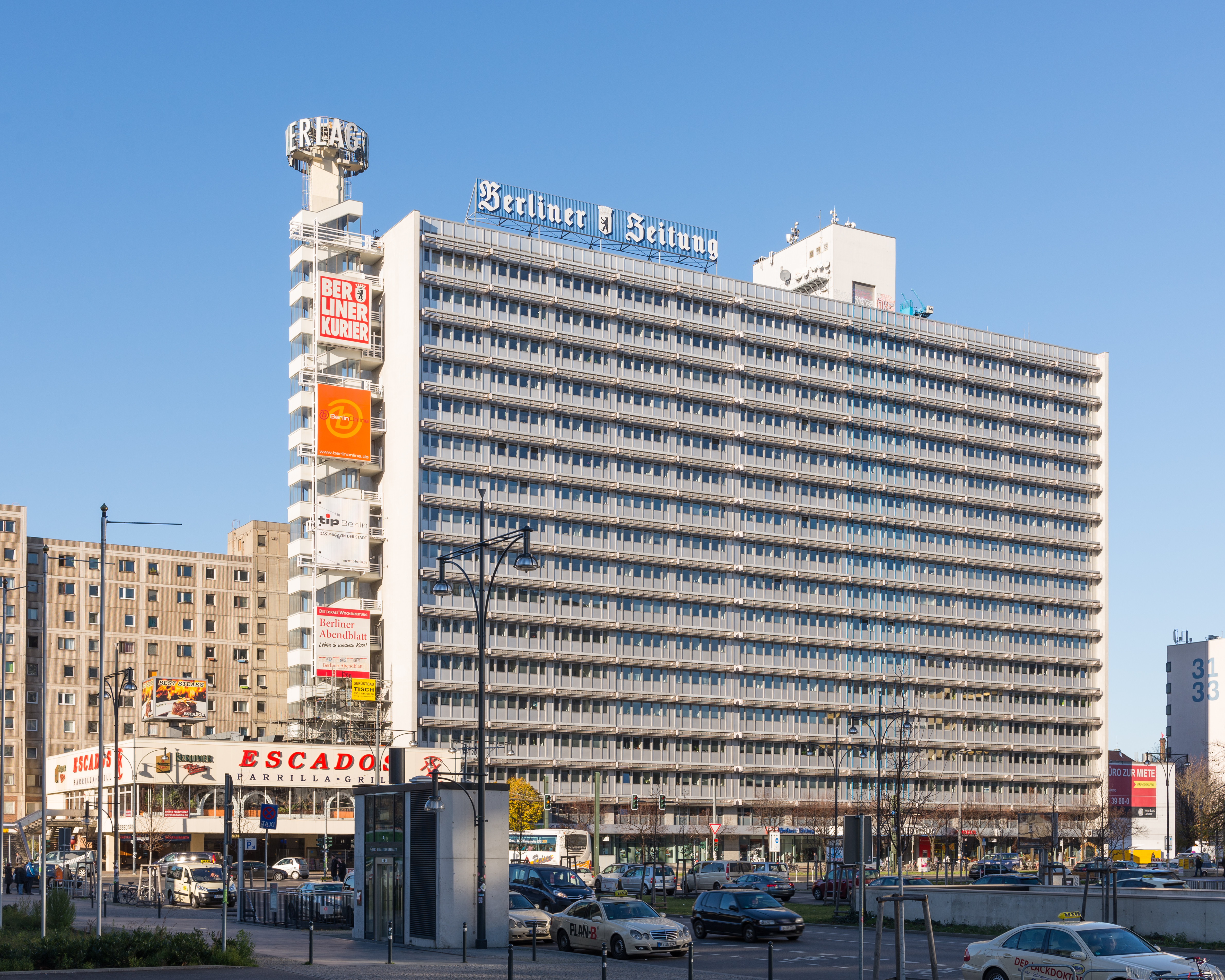 Publishing house of "Berliner Zeitung".